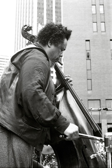 Charles Mingus, July 4, 1976 (NYC)